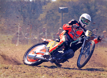 Picture of grasstrack bike and rider. Julian Phipps - International Grasstrack rider. Picture taken at European Qualifier at Astra's meeting in Folkestone, UK - 2003. This picture demonstrates how a bike looks and and is ridden.